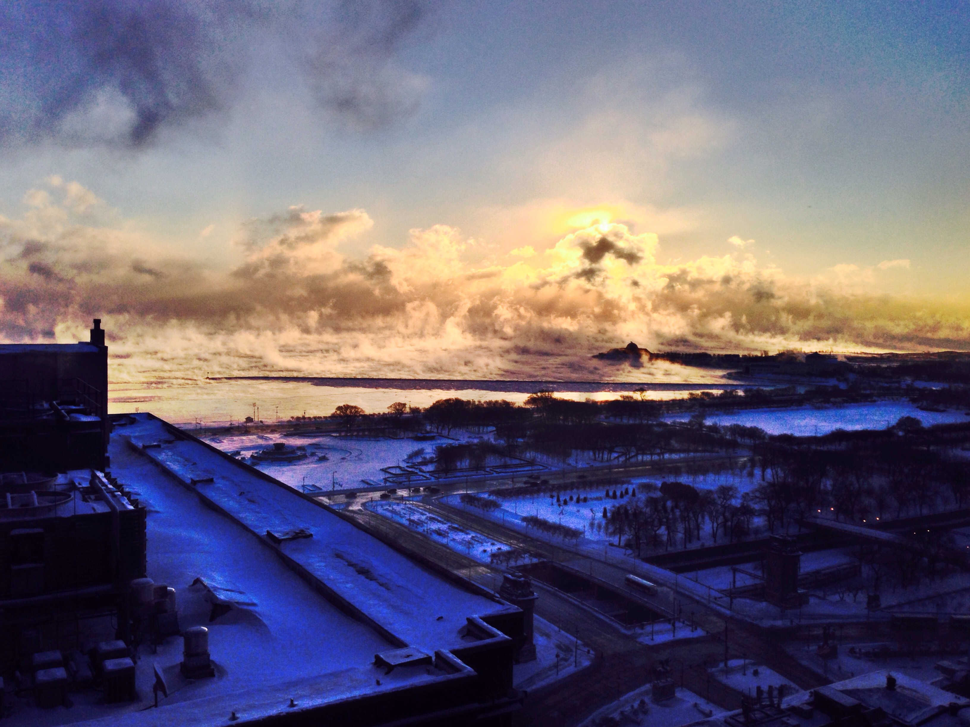 When water meets -15 degree air. Chicago on January 7, 2014